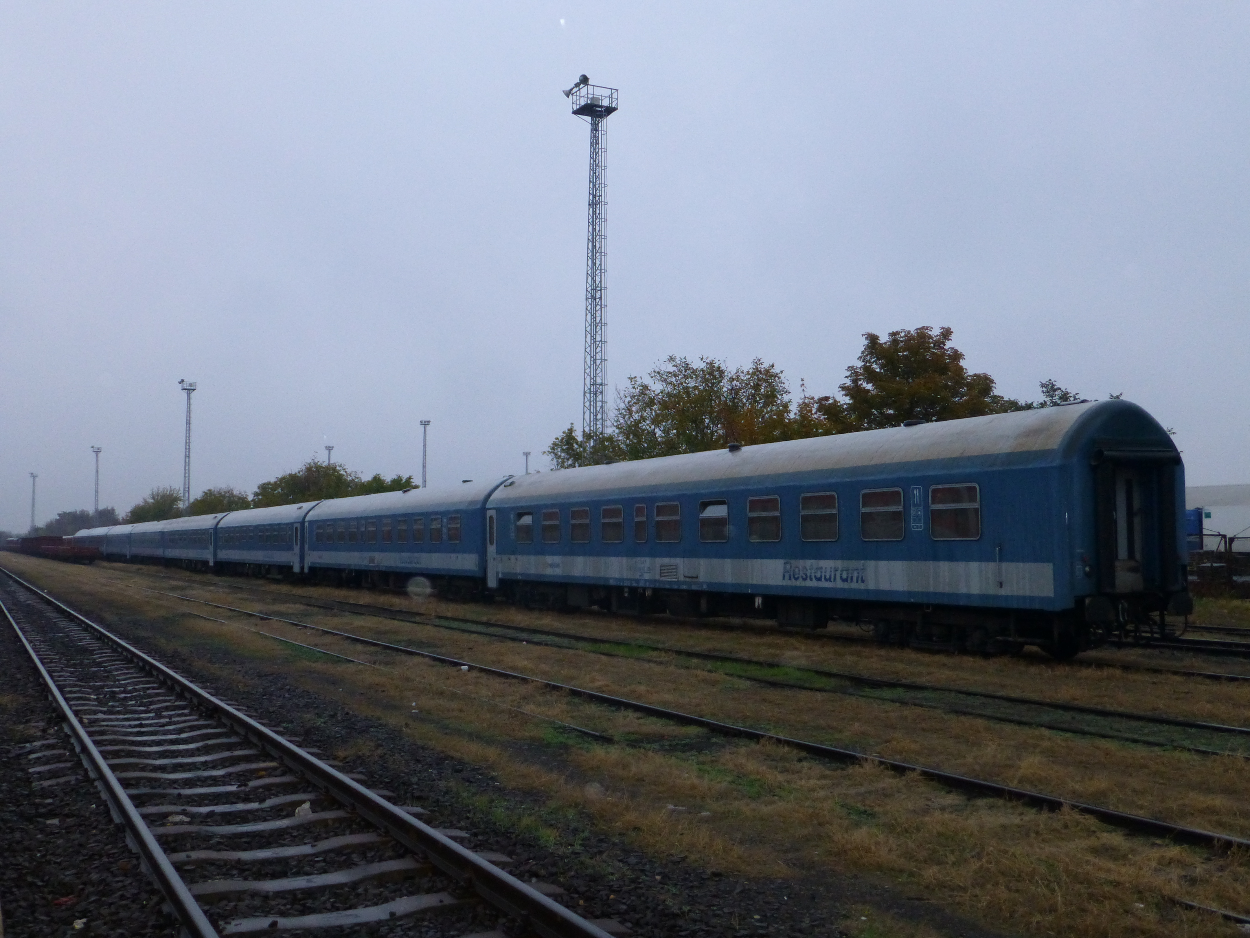 Abandoned Intercity Restaurant coaches of the MÁV in szentes railway station.